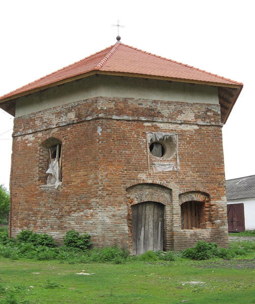 Arians Tower, Belz